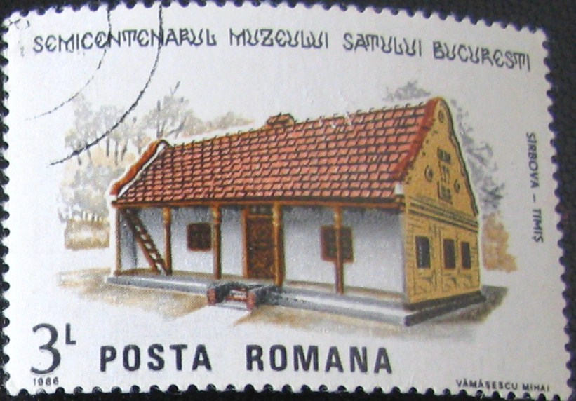 50 Years of Bucharest Village Museum